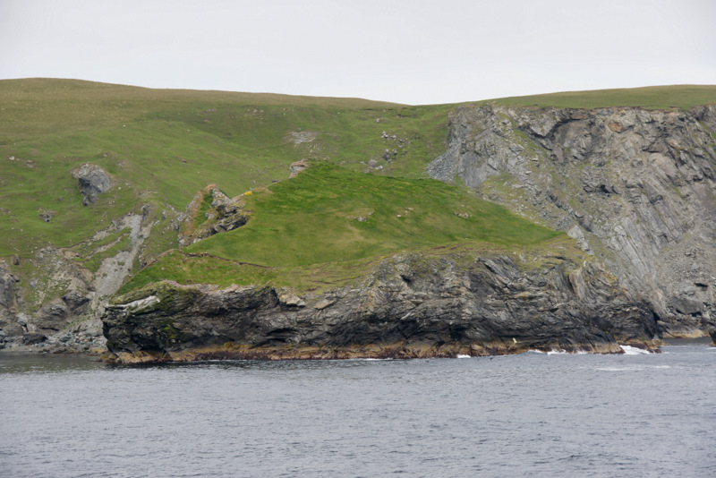 Kame of Isbister, North Roe